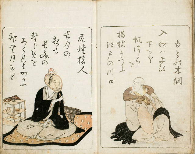 Two pages from the Kokon kyōka-bukura, a book of kyōka poetry published by Tsutaya Jūzaburō.